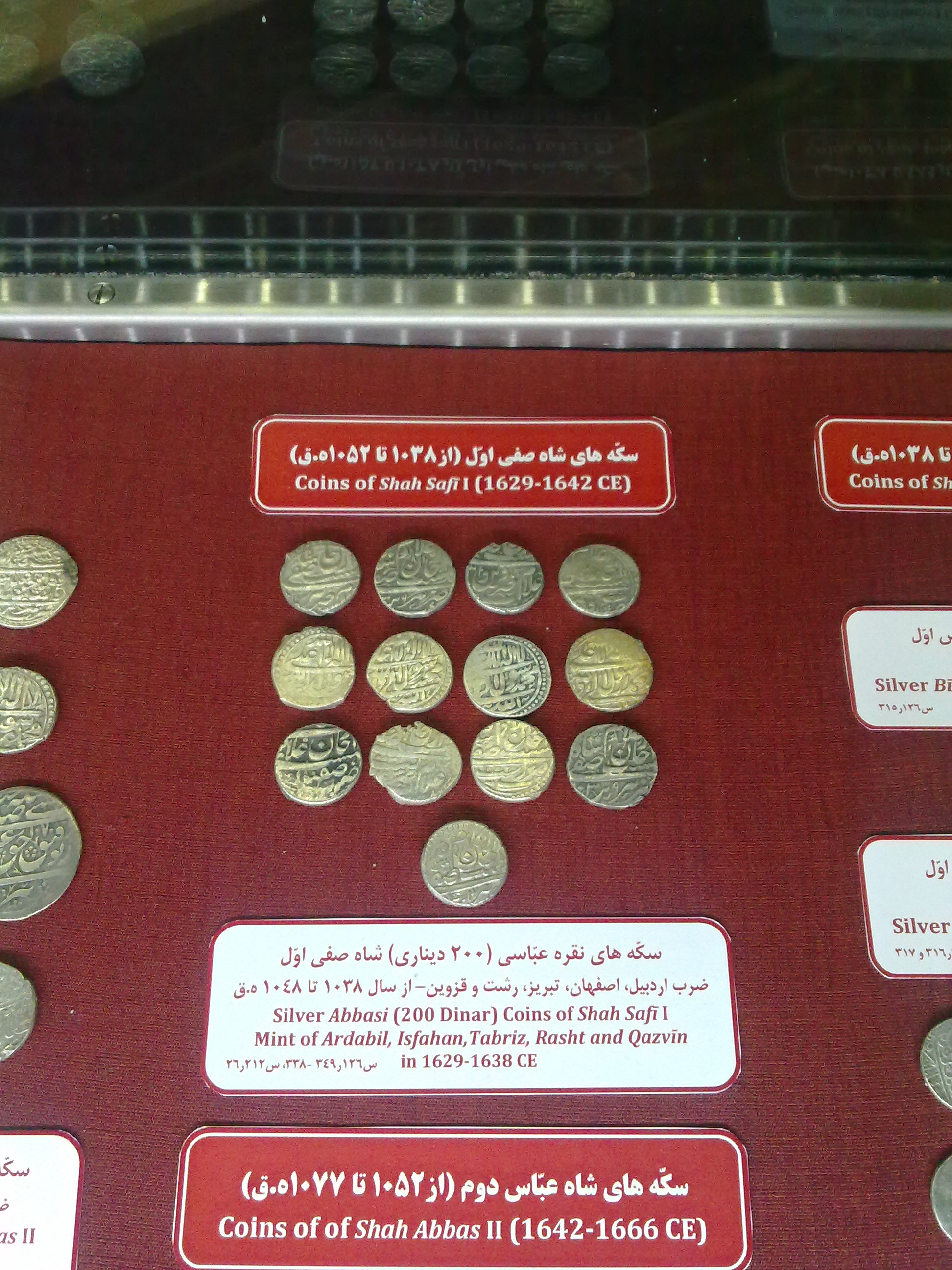 Coins of Shah Safi , Imam Reza museum , Mashad , Iran .